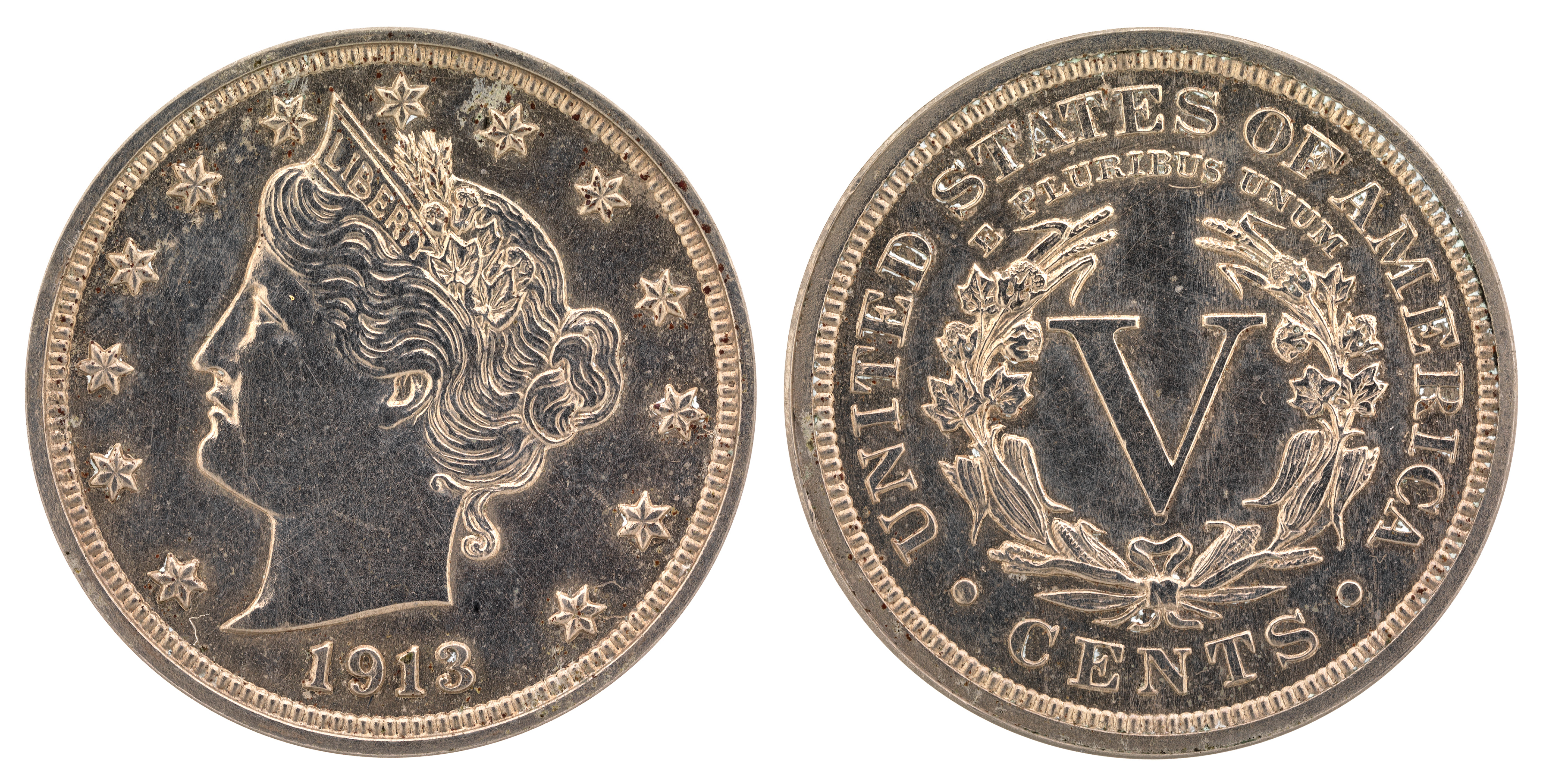 1913-5C-Liberty Nickel (cents)JN2015-5736-37